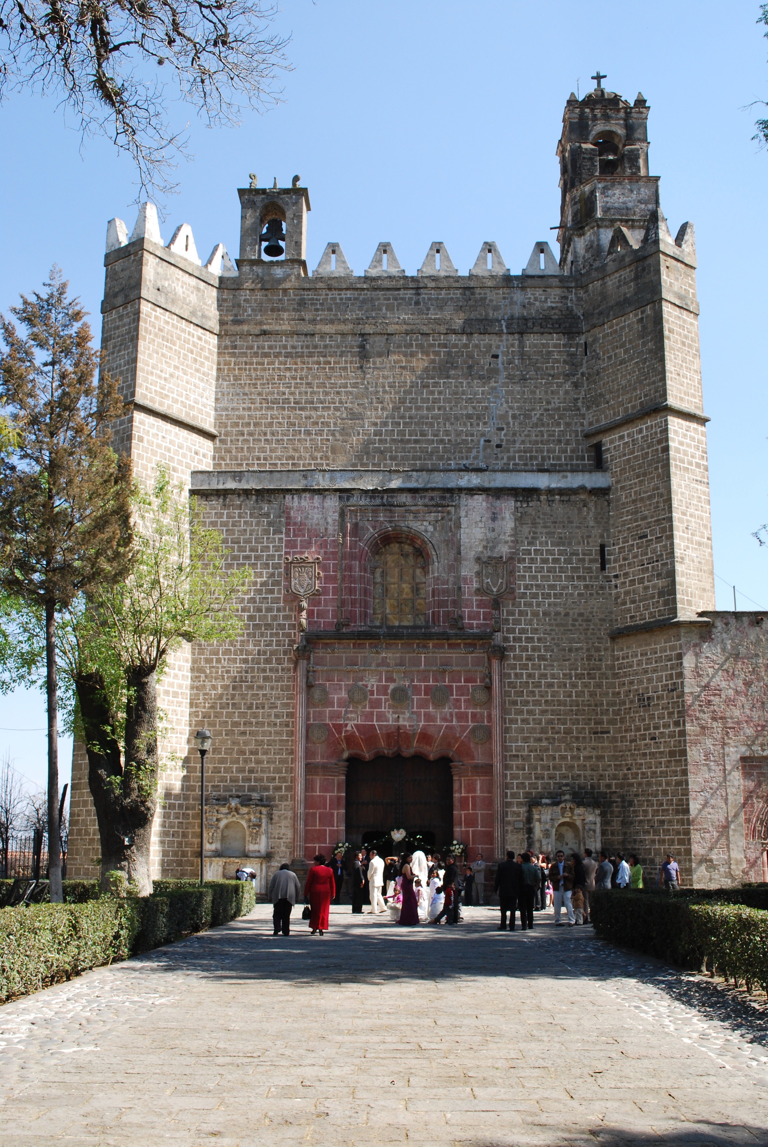 Church Facade of the San Miguel Arcangel monastery in Huejotzingo, Puebla, Mexico